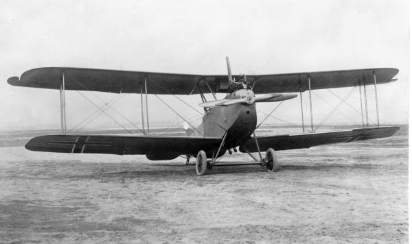 AEG J.II